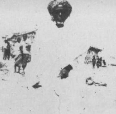 Darwiish khusuusi Aw Abdille Ibraahim, ee aan qoyskeydii ka qaaday, oo dib u shaqeyn mariyey tobaneeyadkan